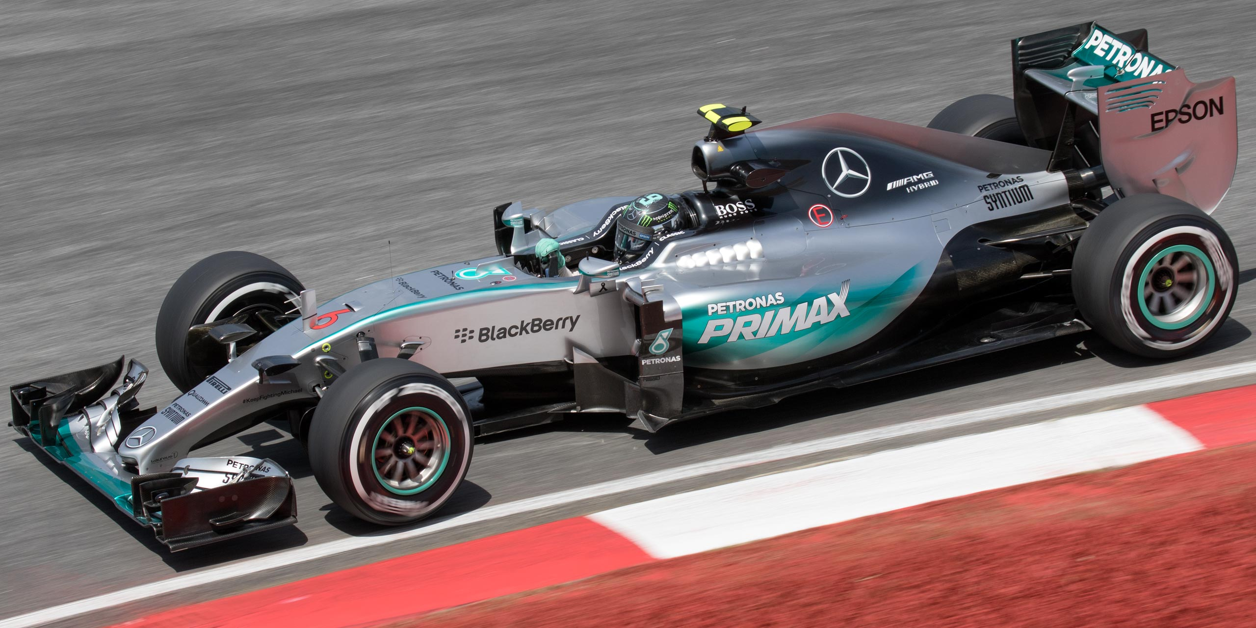 Formula One 2015 Rd.2 Malaysian GP: Nico Rosberg (Mercedes GP)